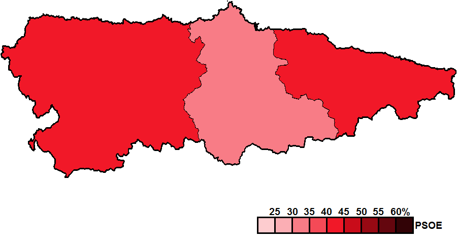 District results for the 2019 Asturian regional election.